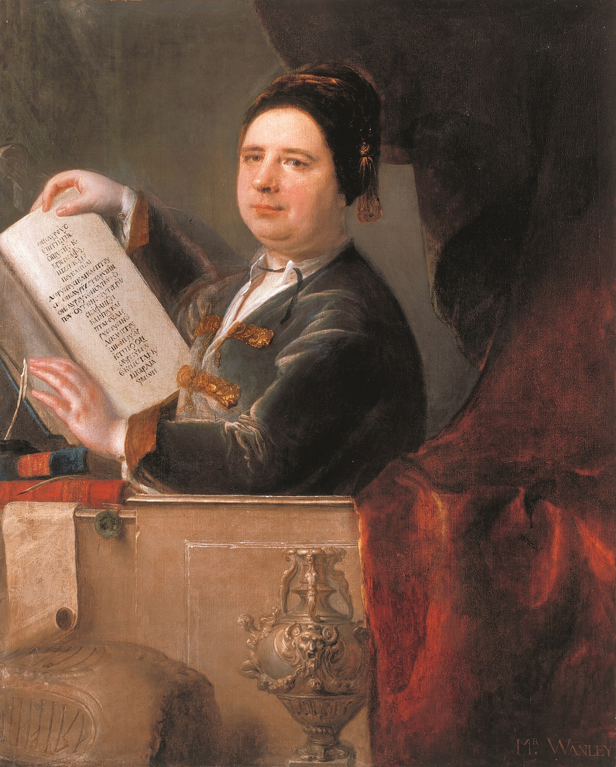 Humfrey Wanley with a cruciform Greek manuscript (Lectionary 150) and Guthlac Roll, among other things (painting at the Society of Antiquaries of London)